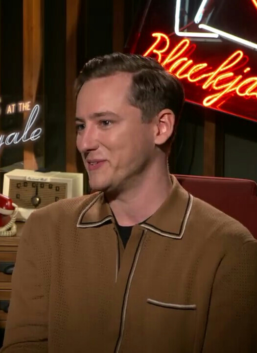 Interview